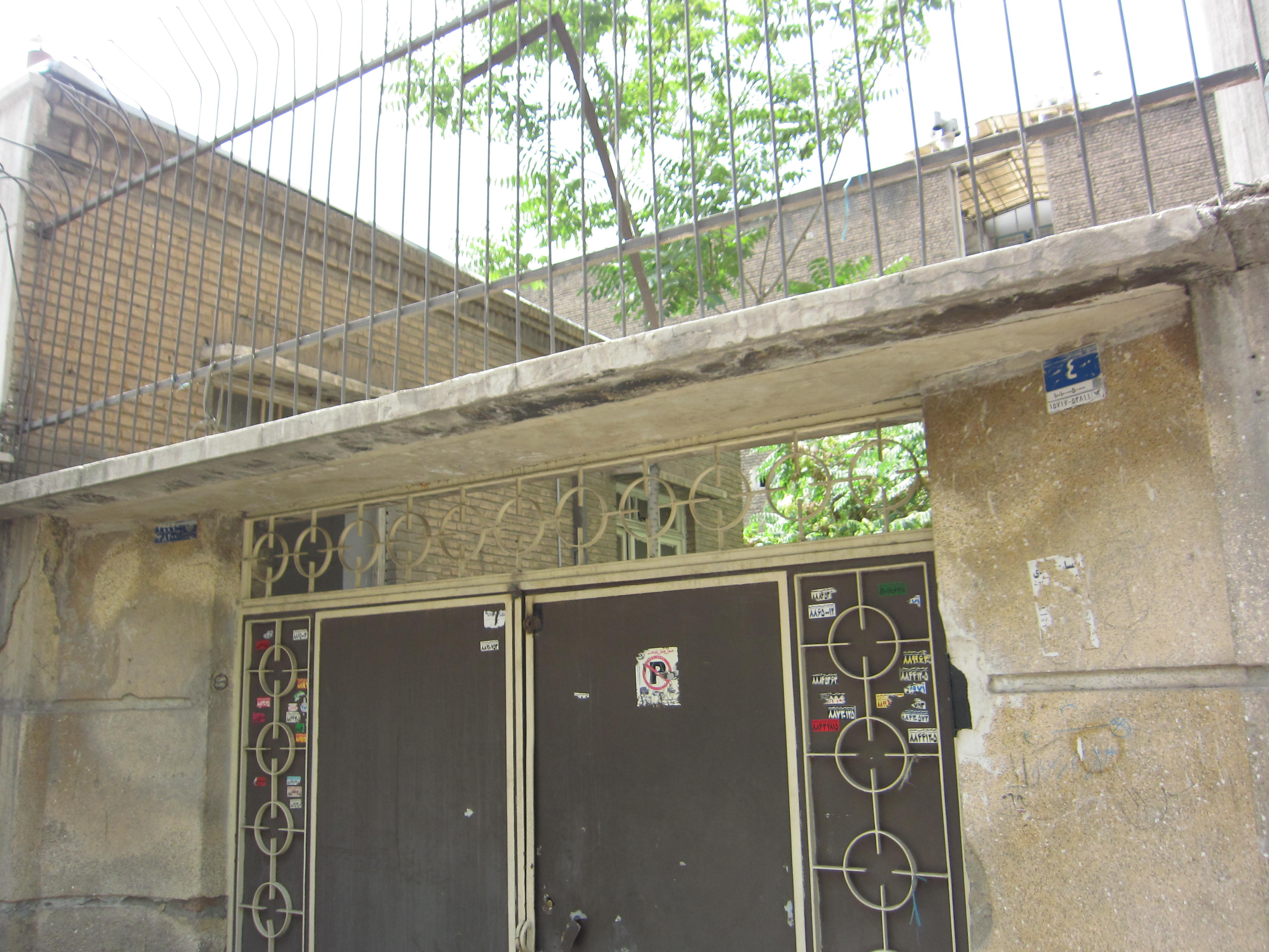 House of Mohammad-Taqi Bahar, Tehran